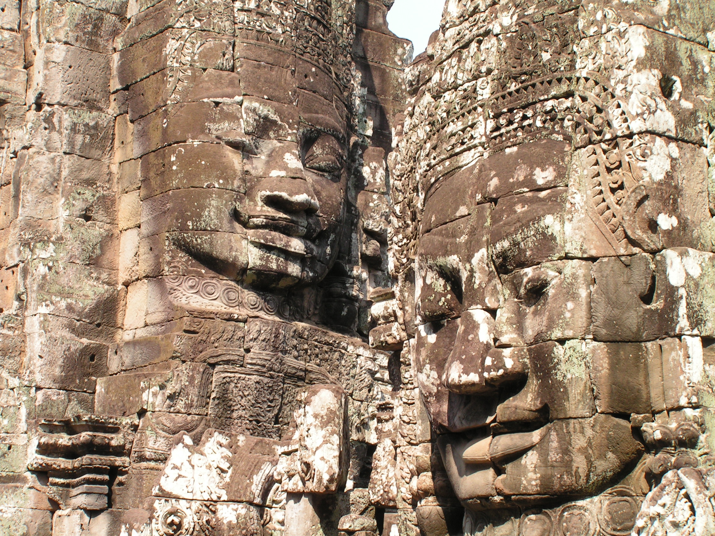 Two_Khmer_Heads-AngkorTwo Khmer Heads